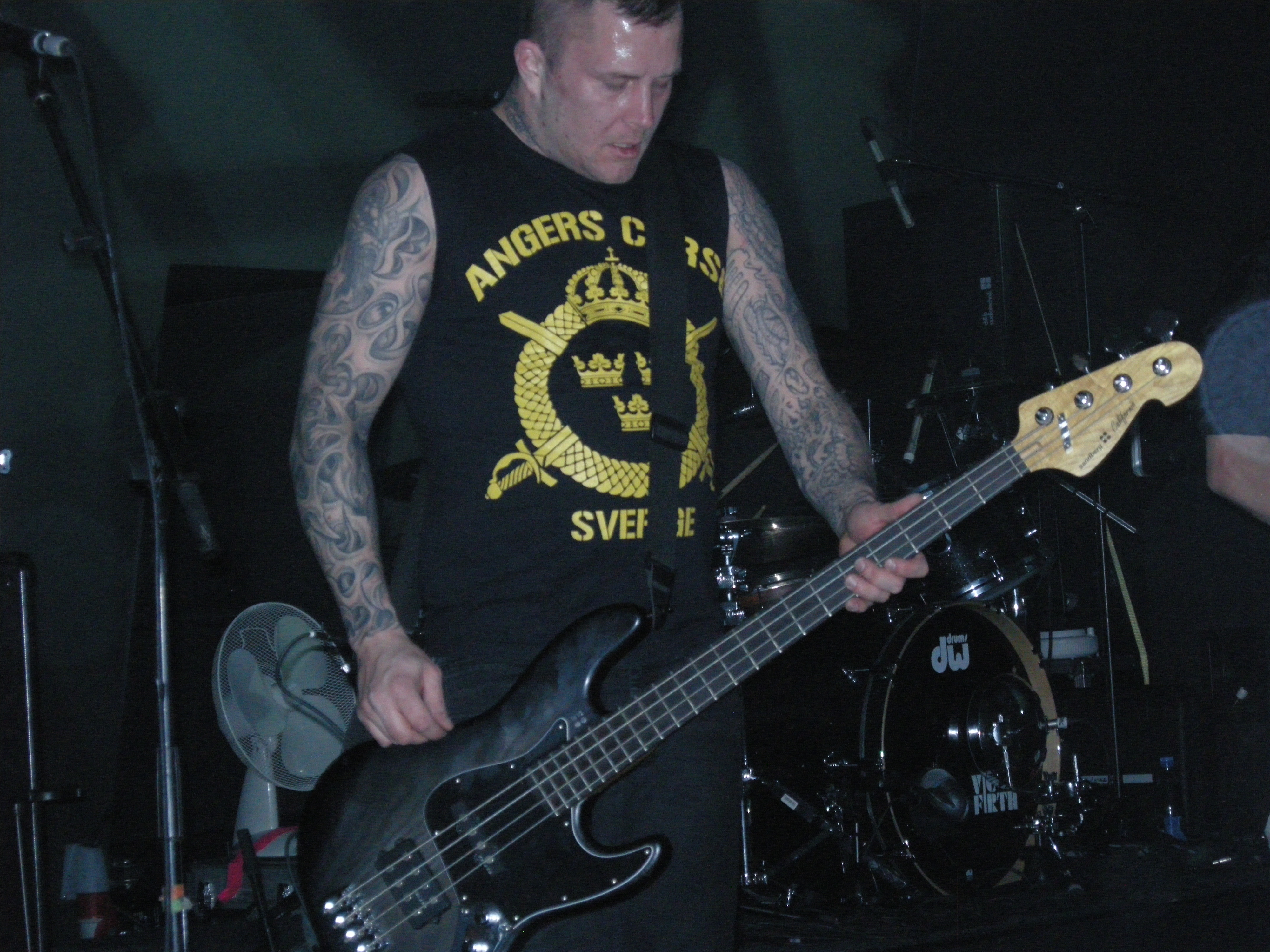 Andreas "Josse" Johansson, bass player of Swedish hardcore band Raised Fist at The Close-Up boat February 2011